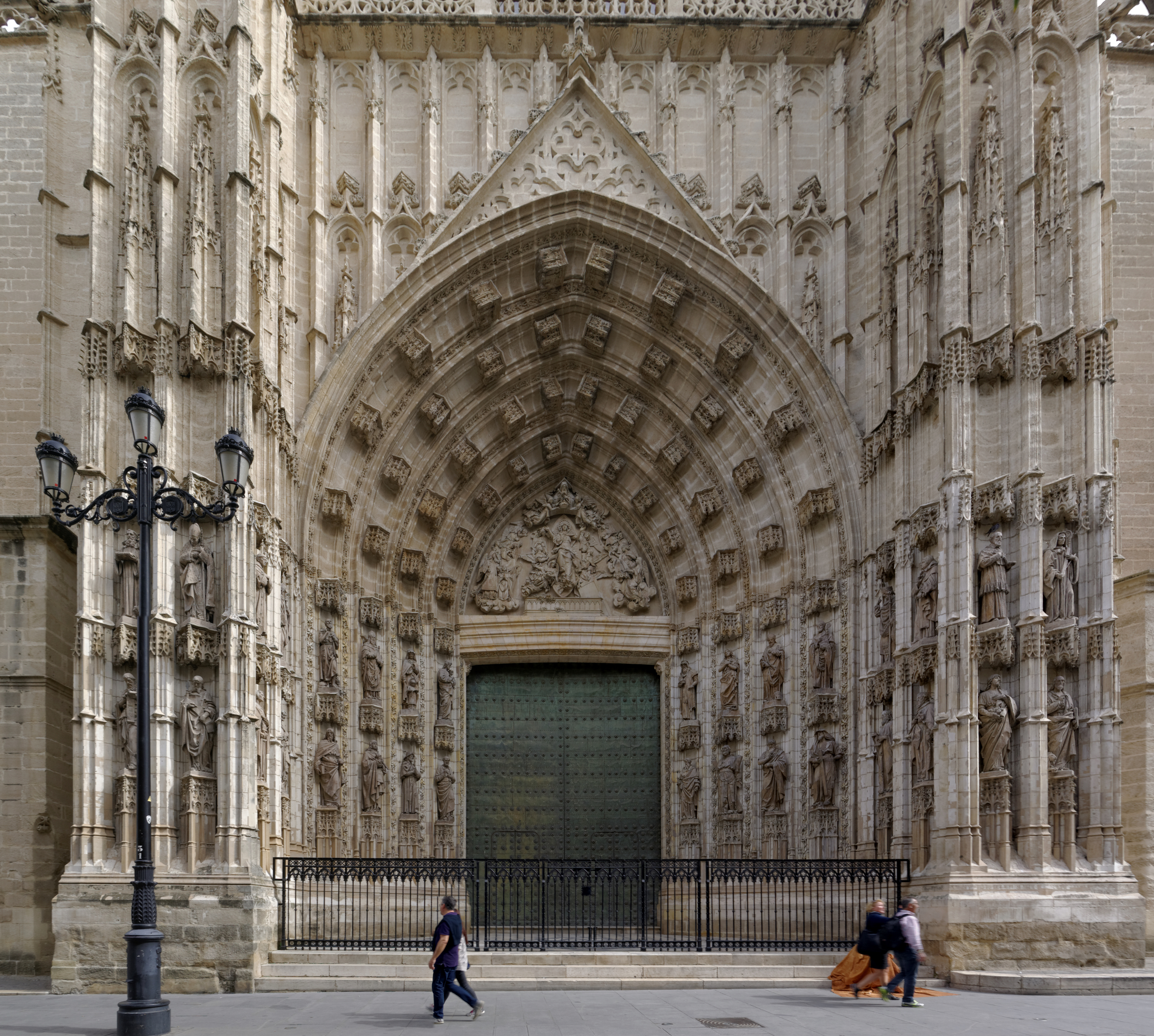 Spain, Seville, Puerta de la Asunción